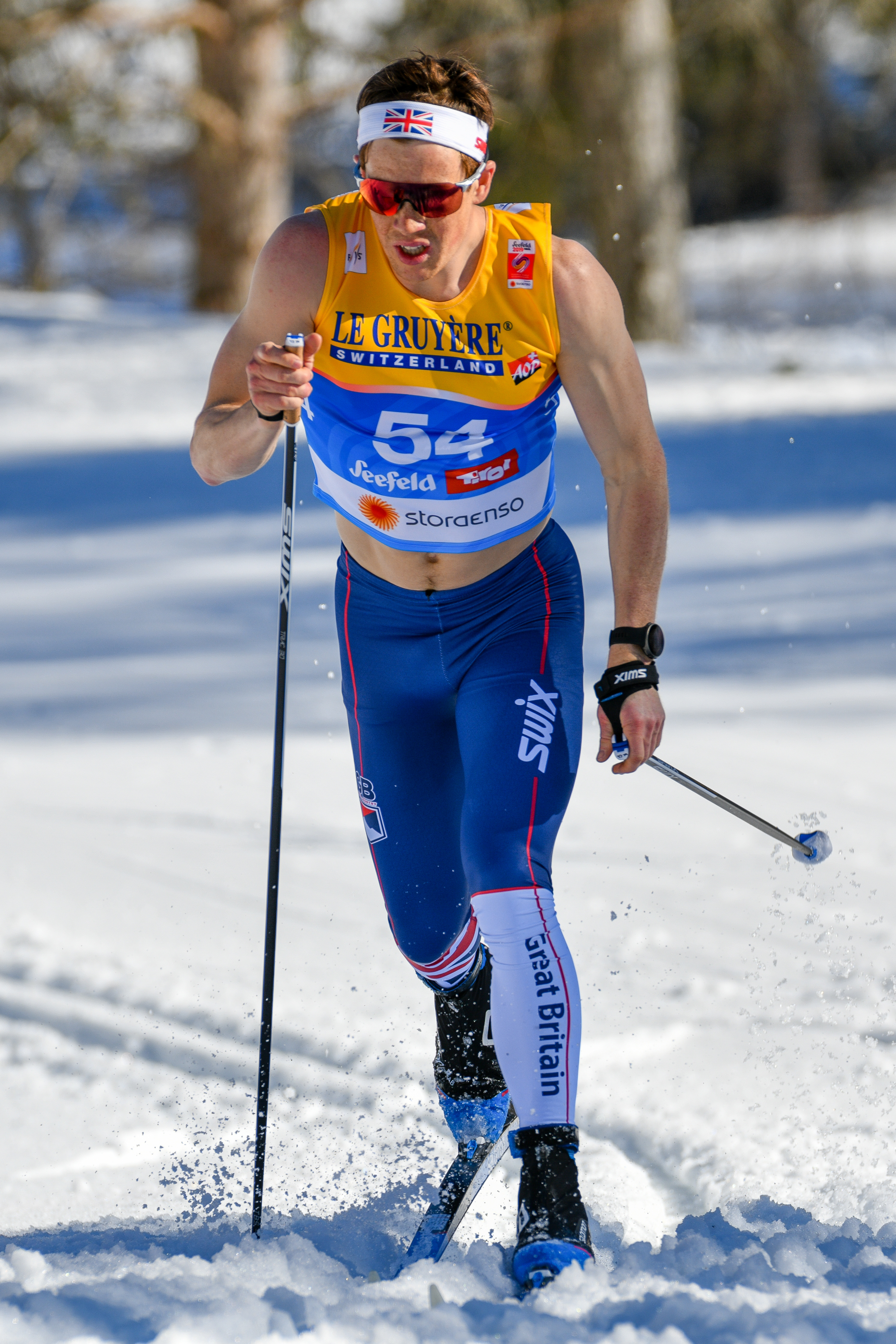 FIS Nordic World Ski Championships Seefeld 2019 - Men 15km Interval Start Classic. Picture shows Andrew Musgrave (GBR).